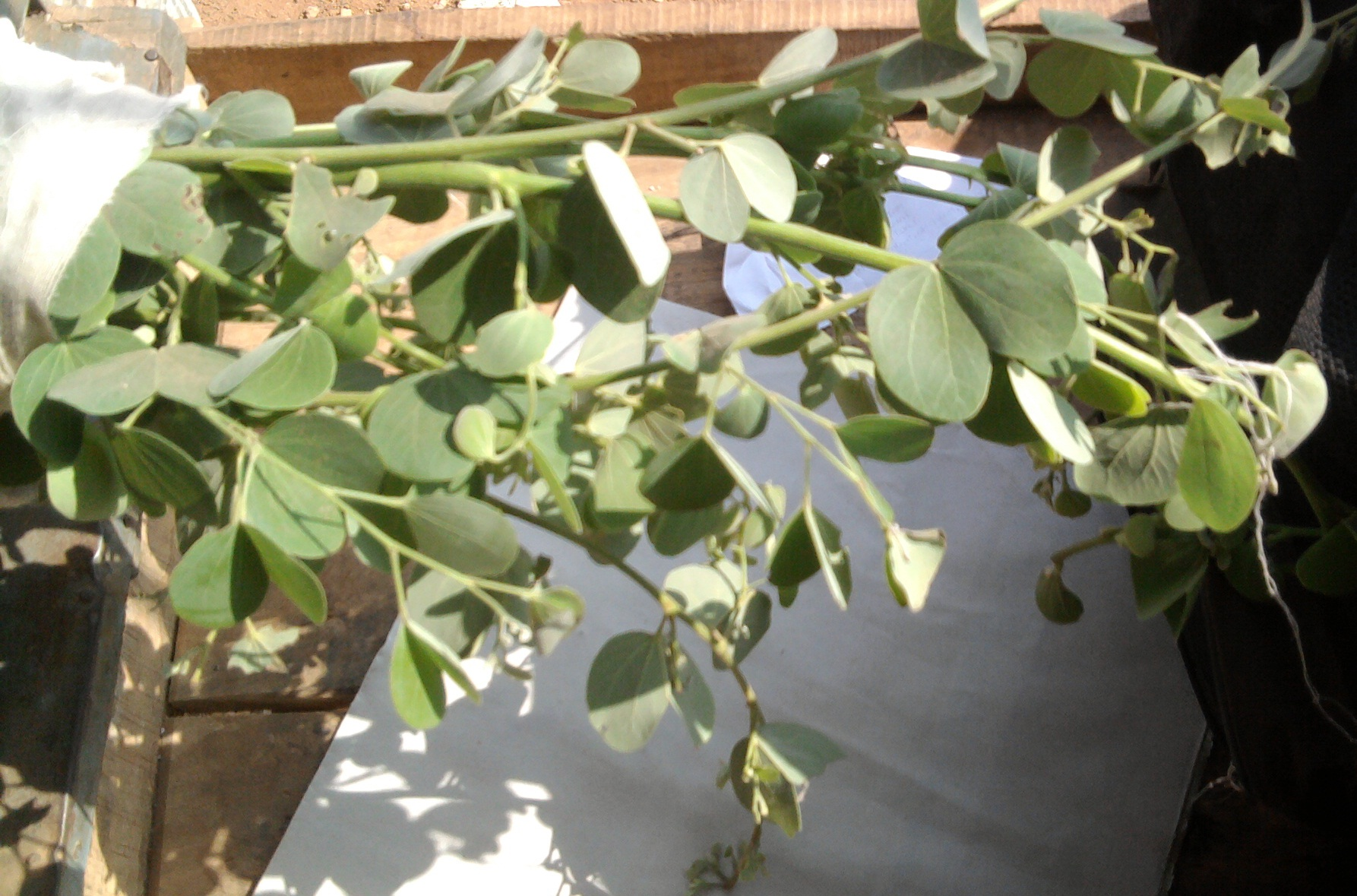 Bauhinia racemosa